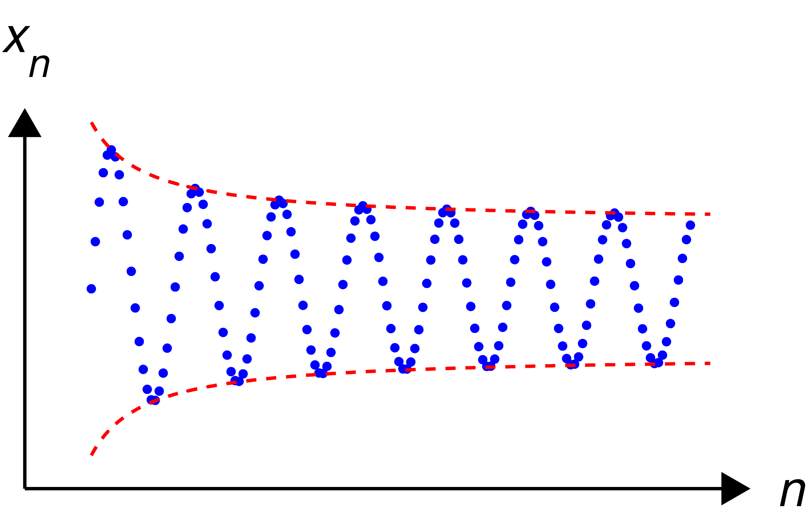 Illustration of Cauchy sequence